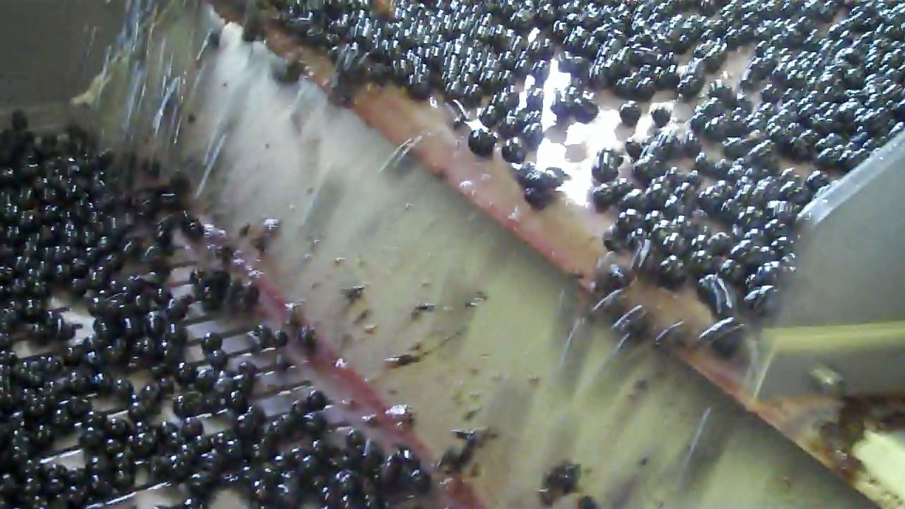 Merlot grapes moving from one sorting table to the next at the Margaux estate of the French wine producer in Bordeaux.